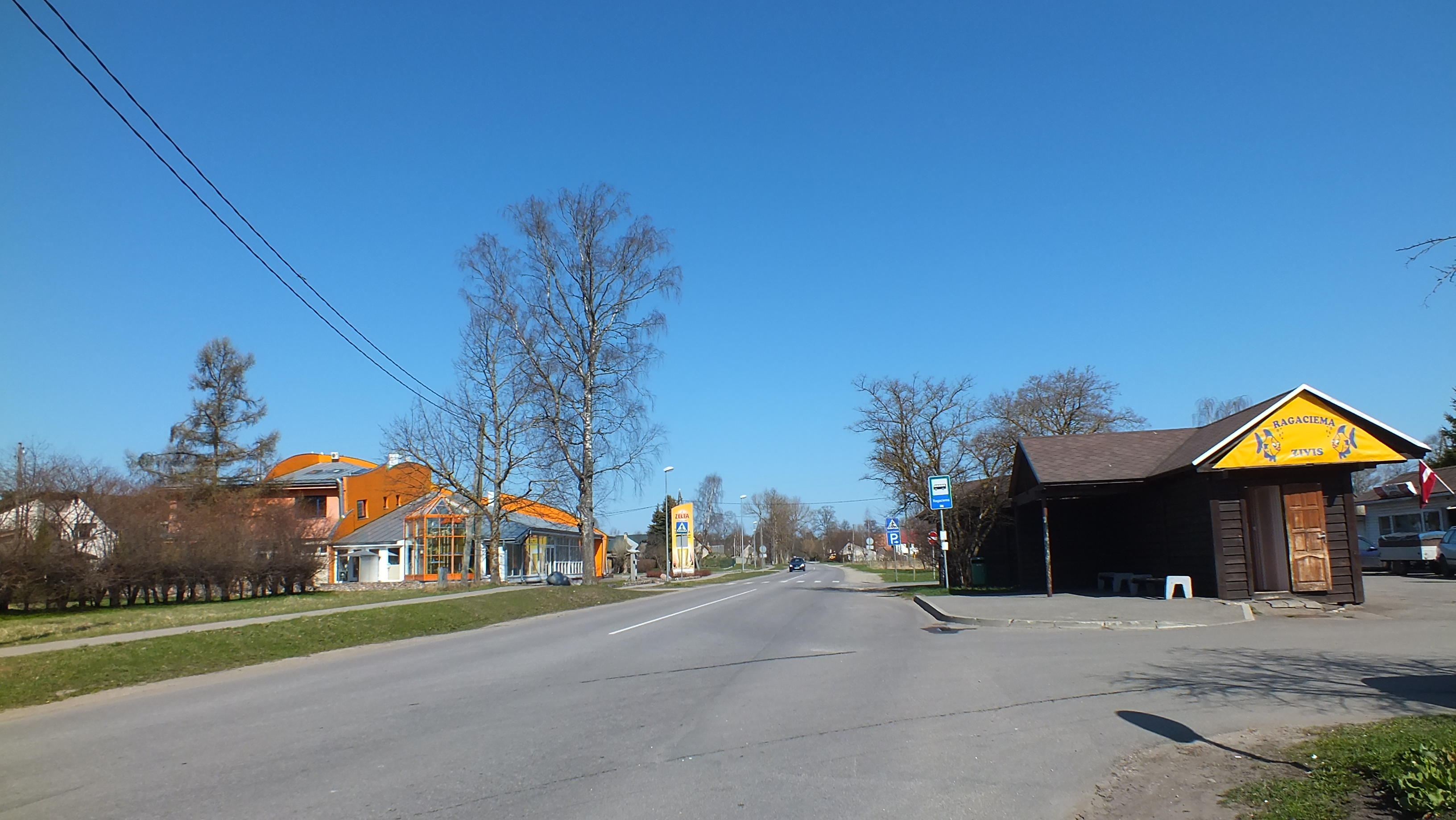 Fish market in Ragaciems